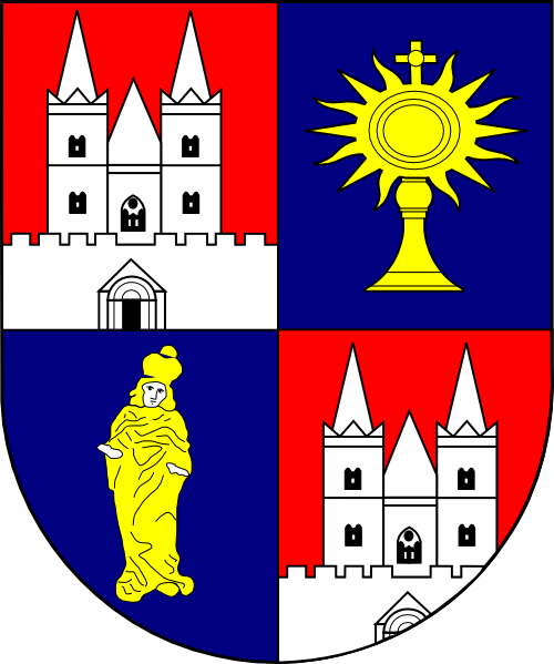 Coat of arms (shield only) of František Tondra, bishop of Spiš, Slovakia (1989 - )